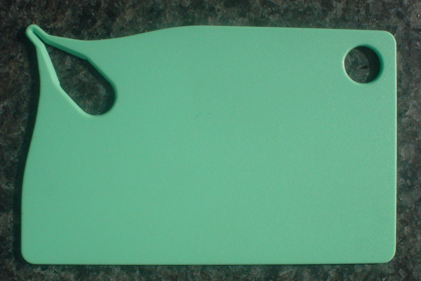 Card for tick removal